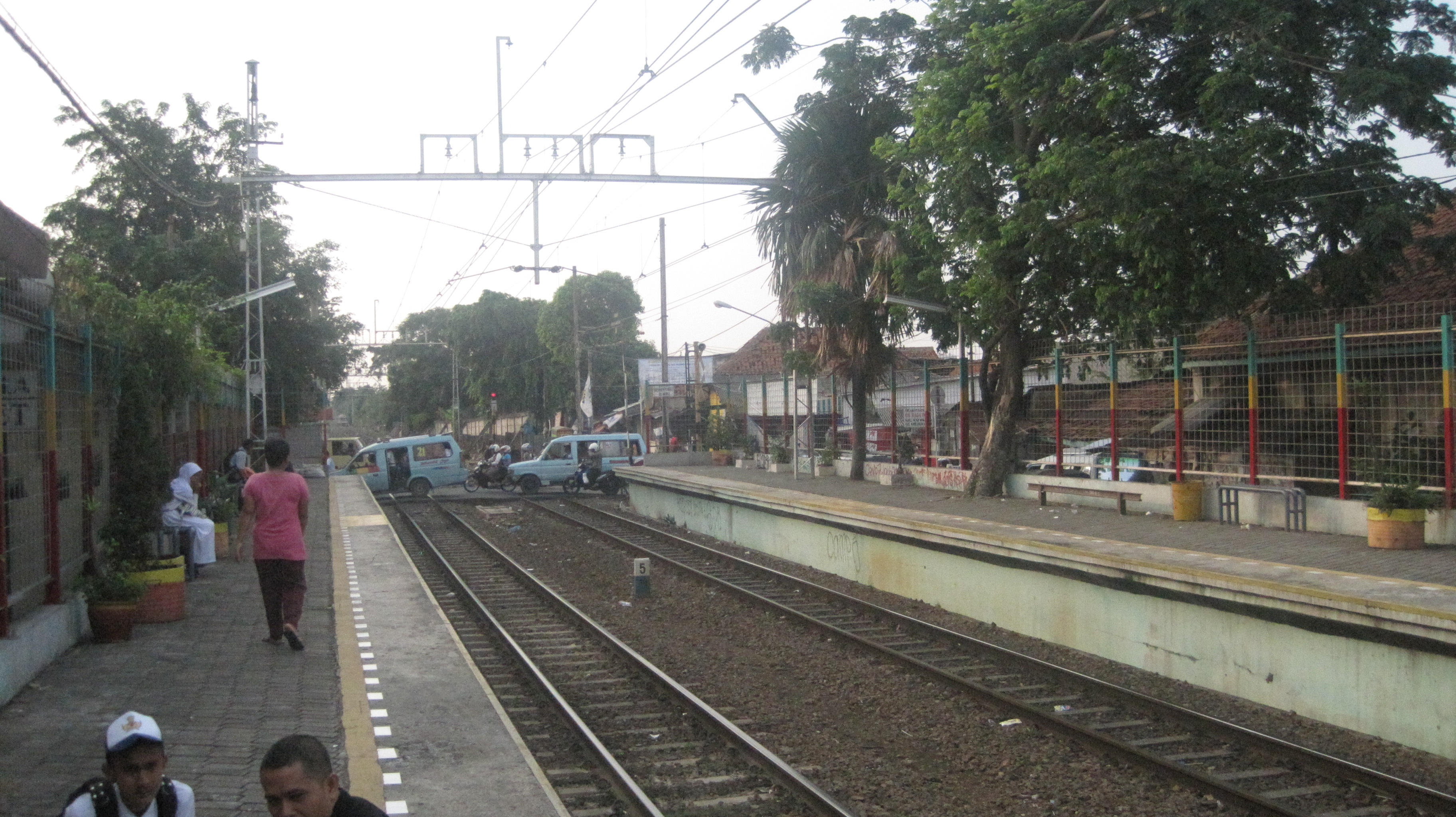 Pondok Jati Train Station in East Jakarta, IndonesiaBahasa Indonesia: Stasiun Kereta Pondok Jati di Jakarta Timur, Indonesia